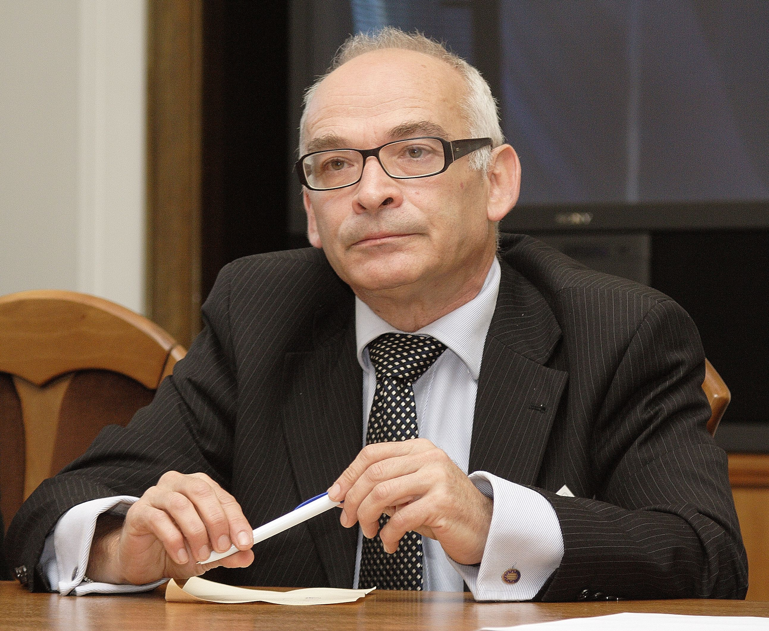 Jan Lityński during the meeting commemorating 30th anniversary of the first issue of "Robotnik" held in the Polish Senate